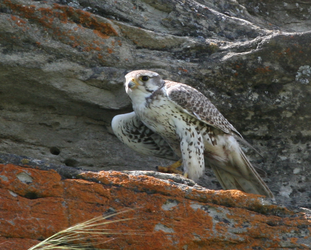 Prairie Falcon with kill in Alberta, Canada.